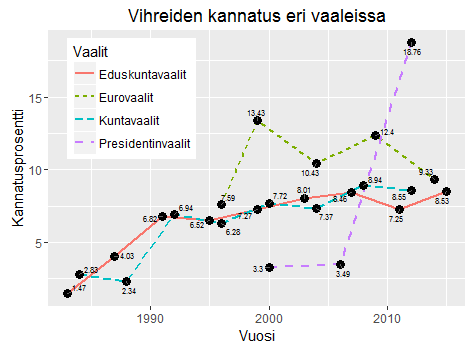 Vihreiden kannatus eri vaaleissa